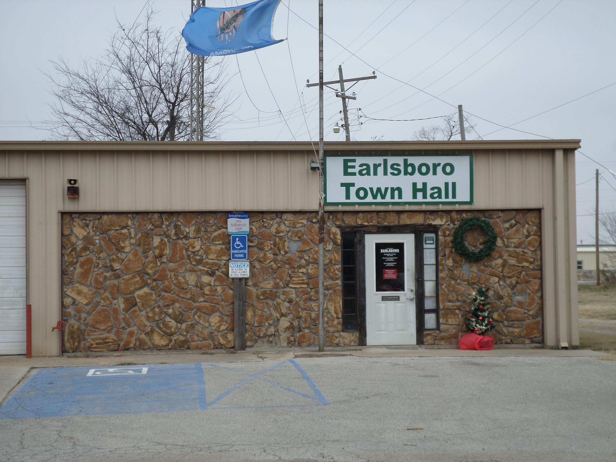 The Earlsboro Town Hall, located at 110 Lamar Ave., Earlsboro, Oklahoma.